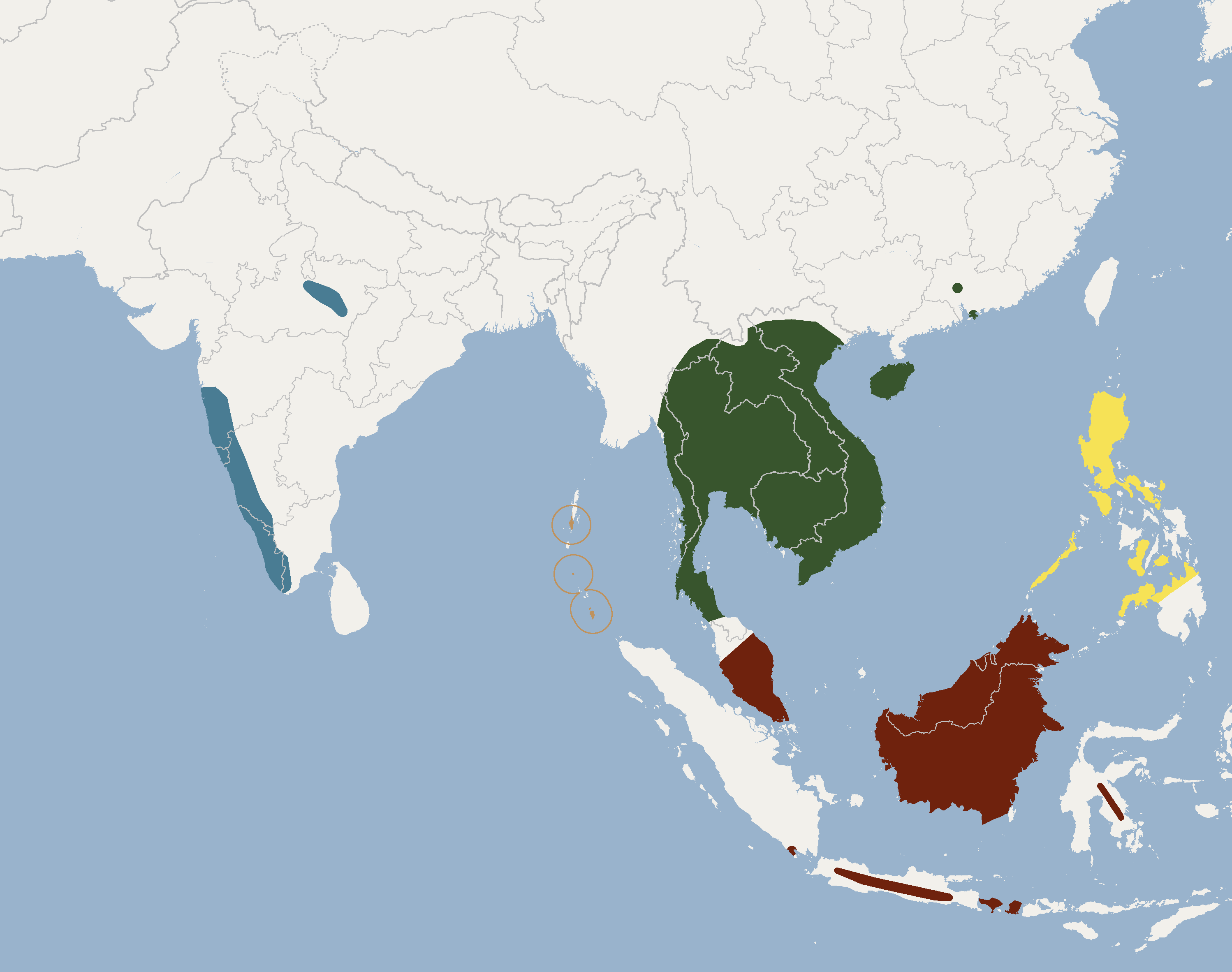 According to IUCNRedLIST